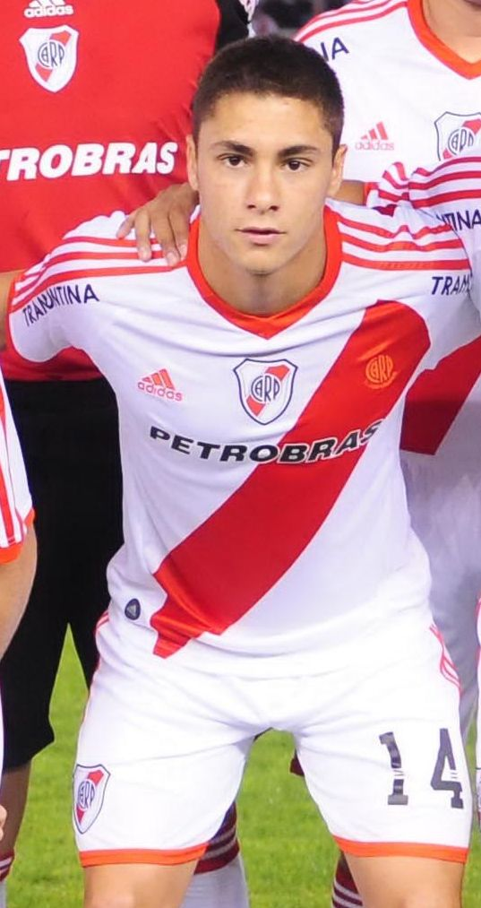 Ezequiel Cirigliano posing with the River Plate squad in 2011.